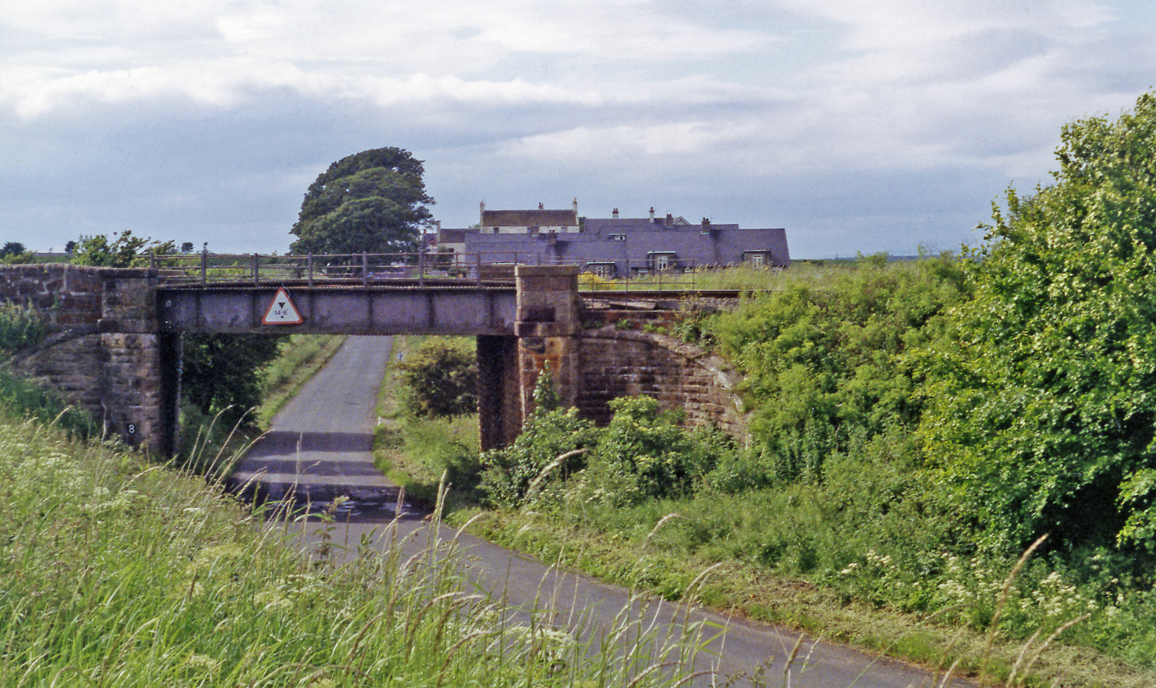 Site of Auchincruive station, 1994. View SE from the A758, to the bridge where the ex-GSWR Ayr (to left) - Annbank (to right) - Drongan - Muirkirk line crosses. The station, which was up on the left, had been closed to passengers on 10/9/51 when the service (via Drongan) ceased, but the line was still open - for open-cast coal.